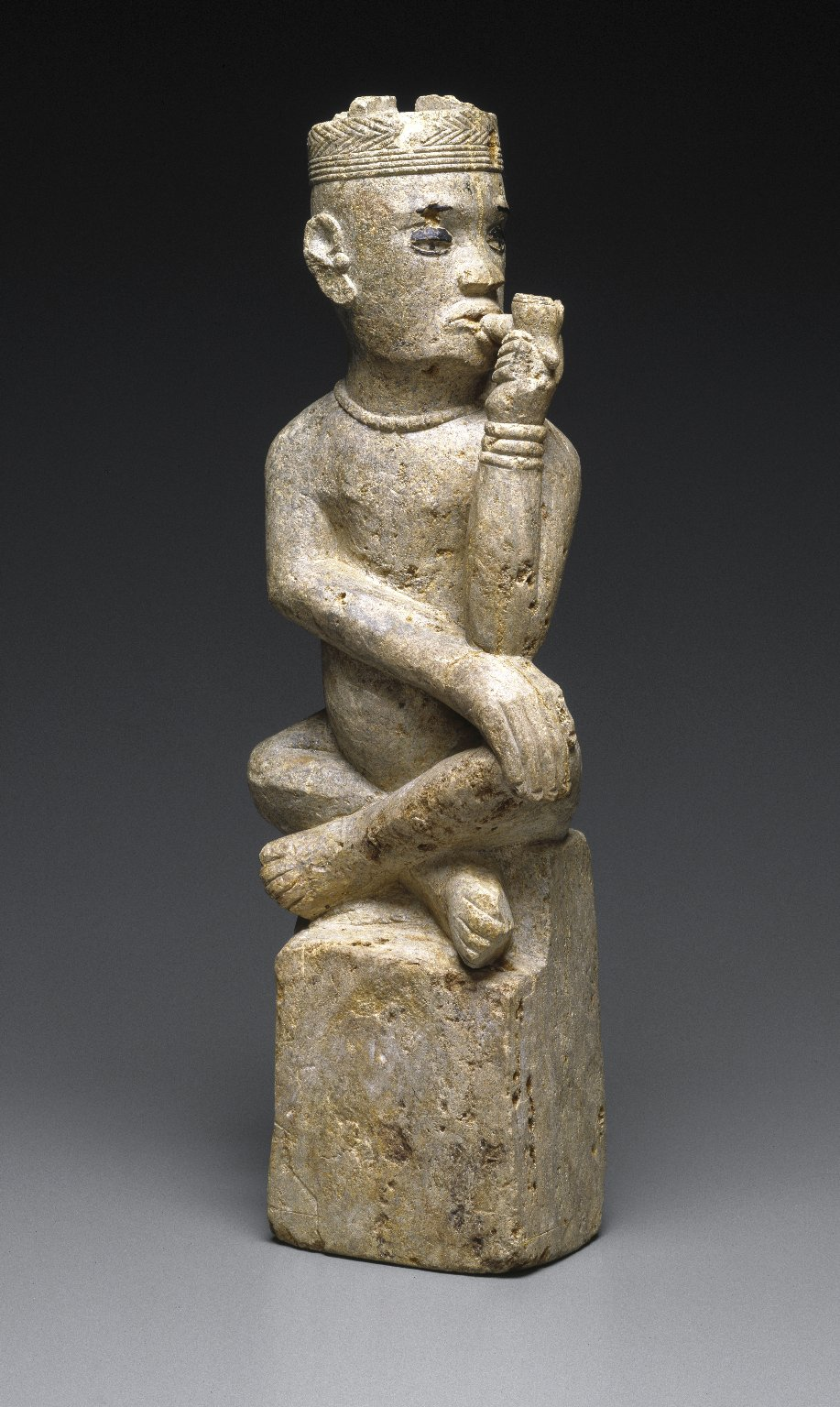 Male figure sitting cross-legged on rectangular base. Right hand rests on left knee; left hand holds short thick pipe to mouth. Head turns to left. Eyes black in color. Wears cap with leopard teeth, beaded bracelets, and a necklace. Condition is good.